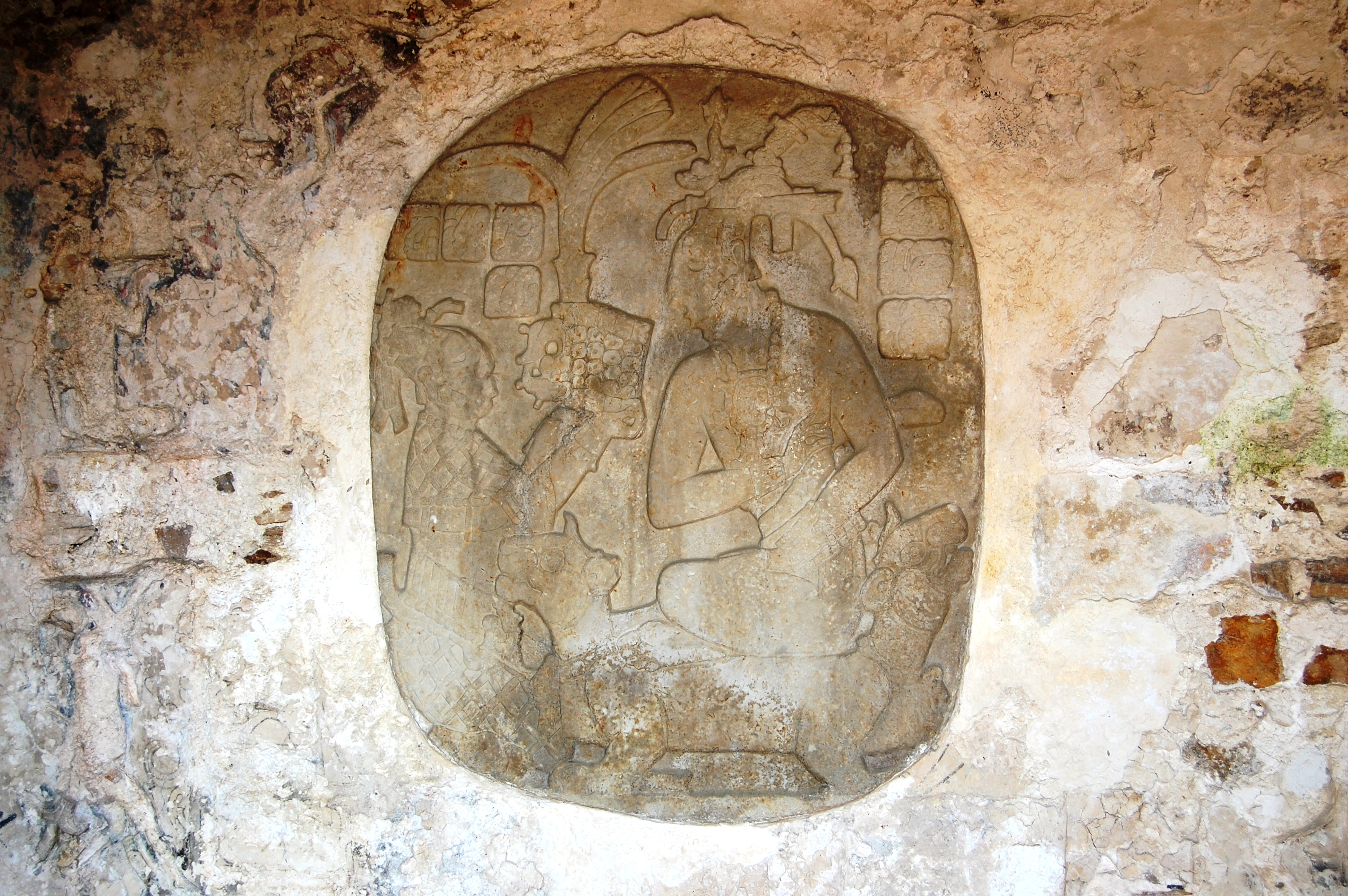 Oval Palace Tablet depicting Lady Sak K'uk', K'inich janaab'Pakal I's mother, presenting him a crown on the day he assumed the kingship (Maya site of Palenque, Mexico)